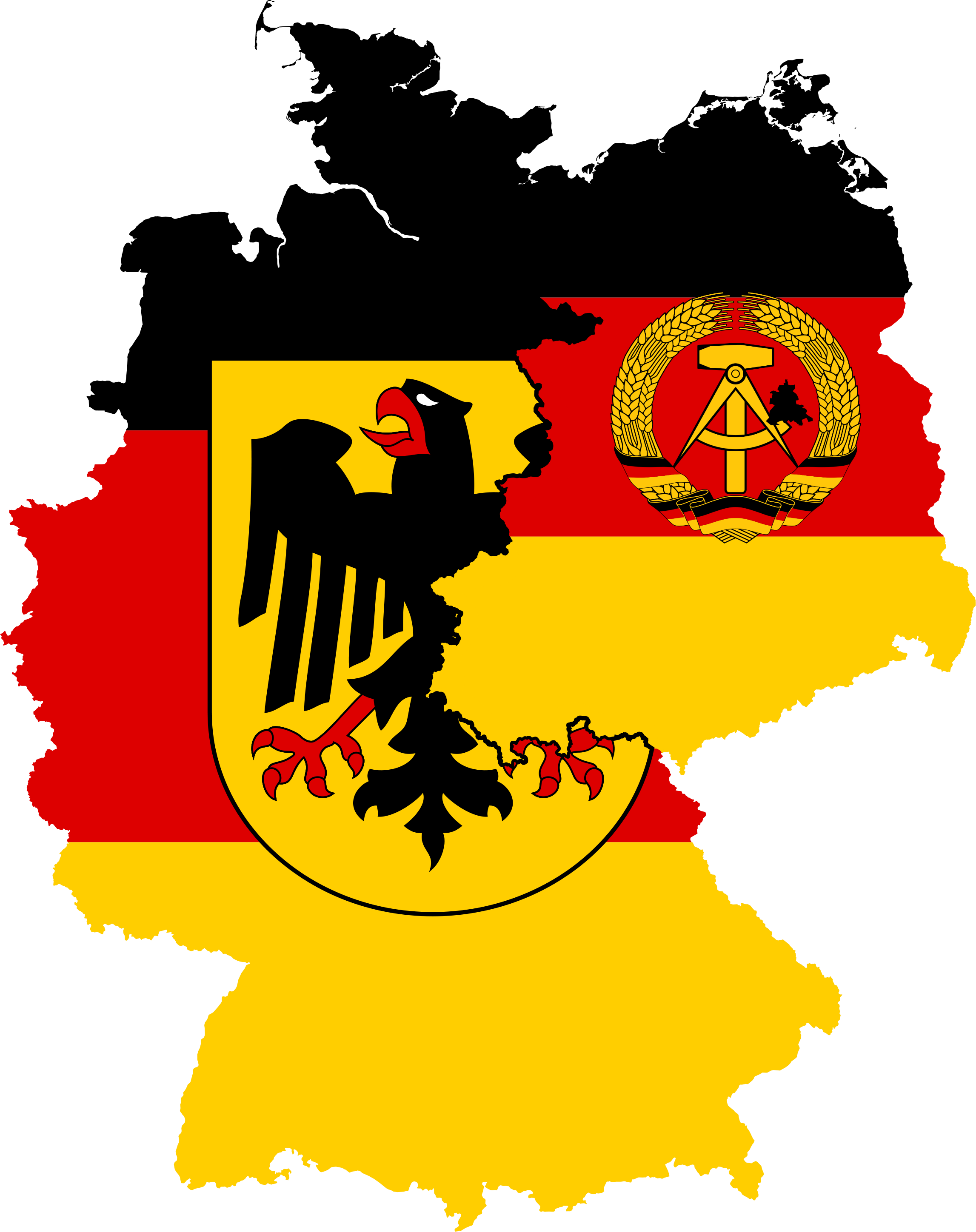 Another version of the East & West Germany flag map, but bigger and in better quality, and using the State Flag of Germany (Bundesdienstflagge). Credit goes to Fry1989 for making these original flag maps!